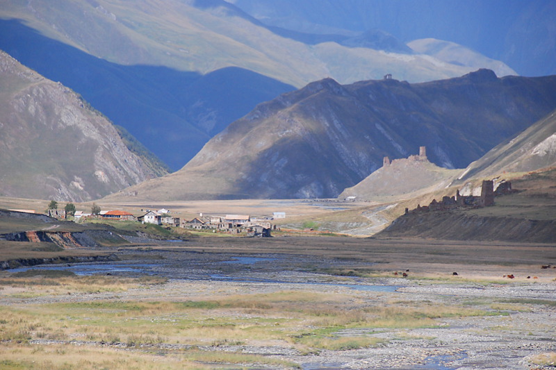 Truso valley